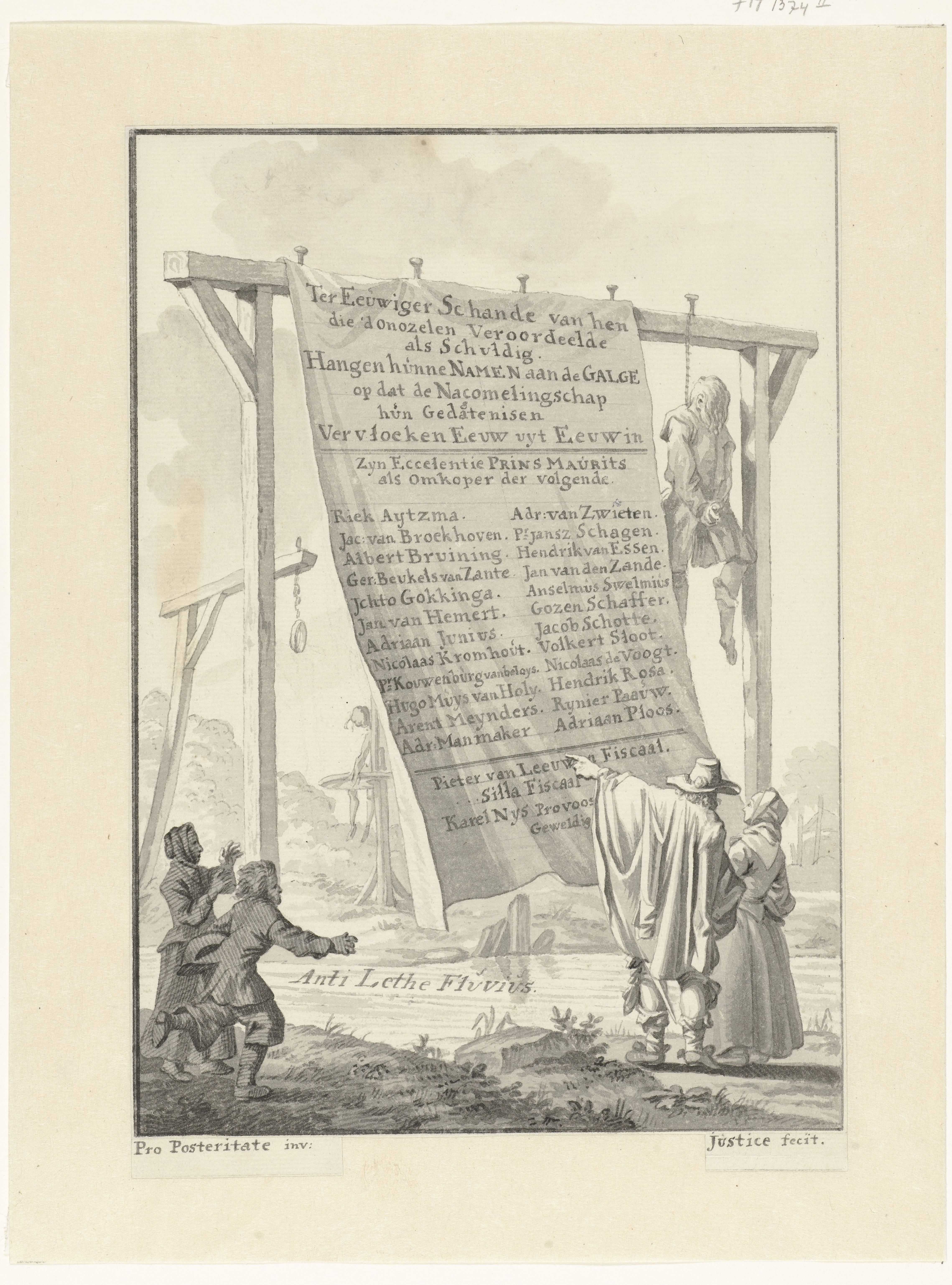 The drawing is according to a note on the back made after a similar drawing that had been published in The Hague in 1621. The figures in the drawing were copied from two prints by Jan Luyken (1537 and 1540). The placard gives the names of all 24 judges in the trial of Johan van Oldenbarnevelt in 1619, two of the fiscals and the provost, accusing them of having been bribed by stadtholder Maurice, Prince of Orange, Oldenbarnevelt's nemesis., and cursing them for all eternity.